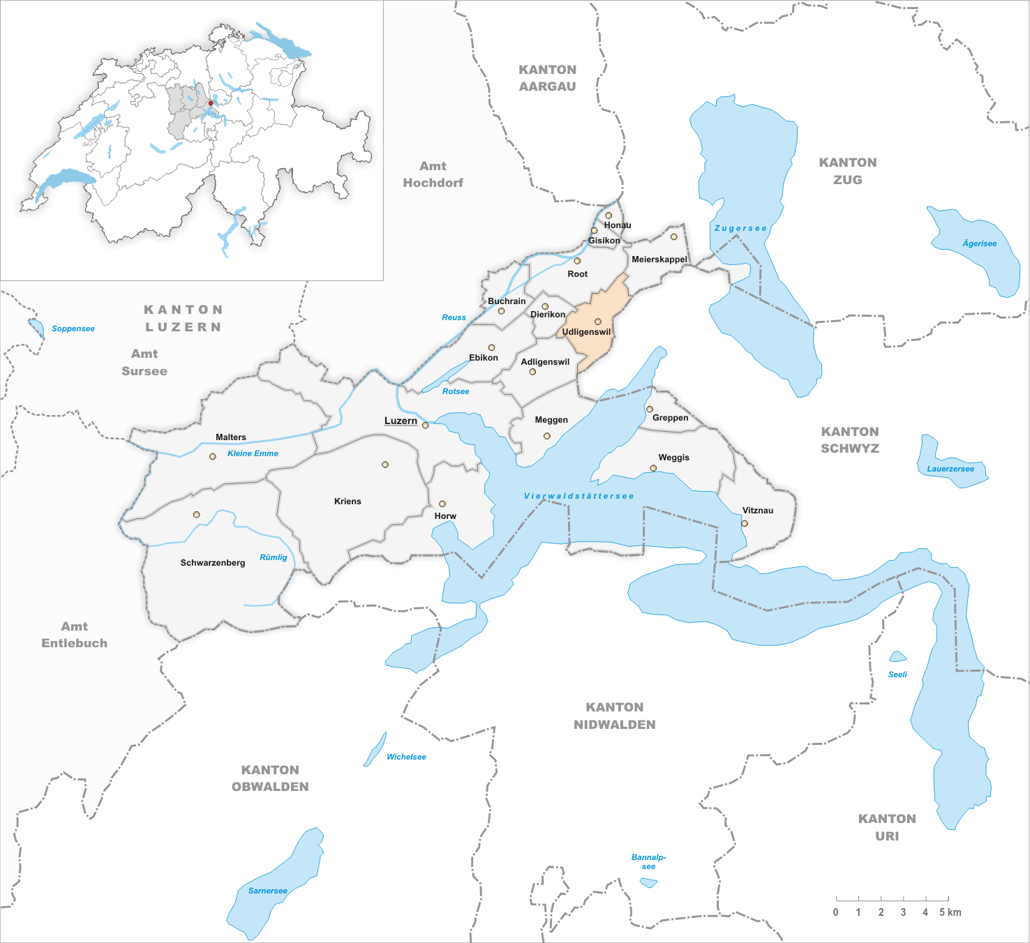 Municipality Udligenswil